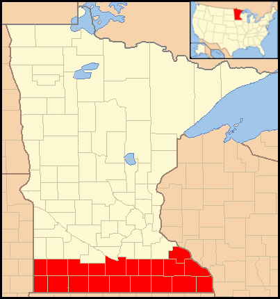 Map of the Catholic diocese of Winona in the USA.